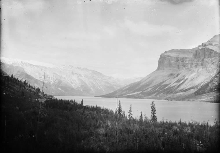 Lake Minnewanka as it appeared in 1902.